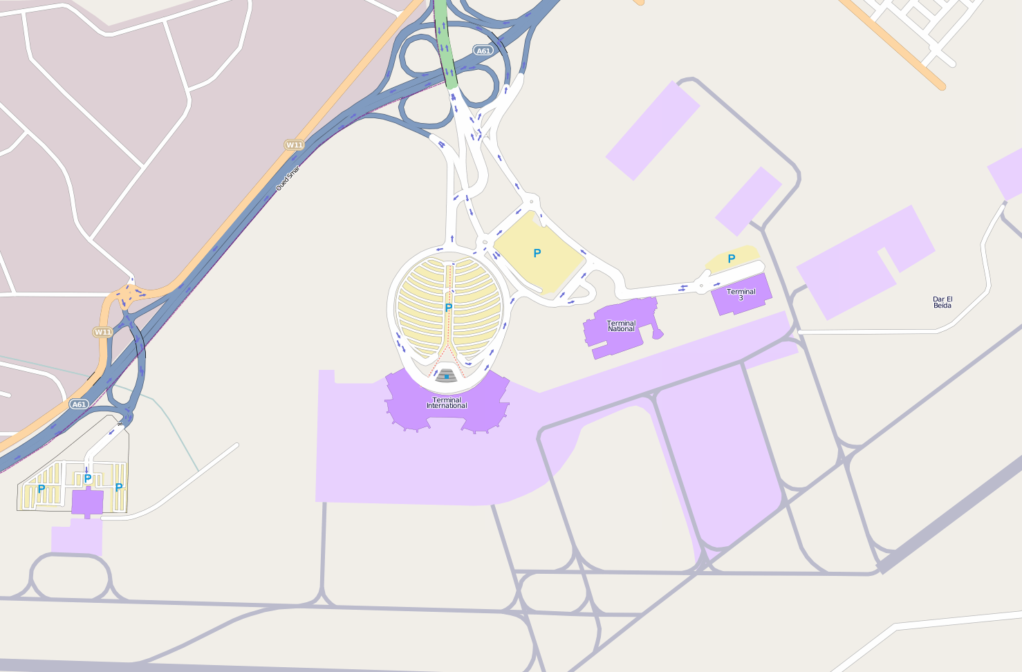 Map of Houari Boumediene Airport